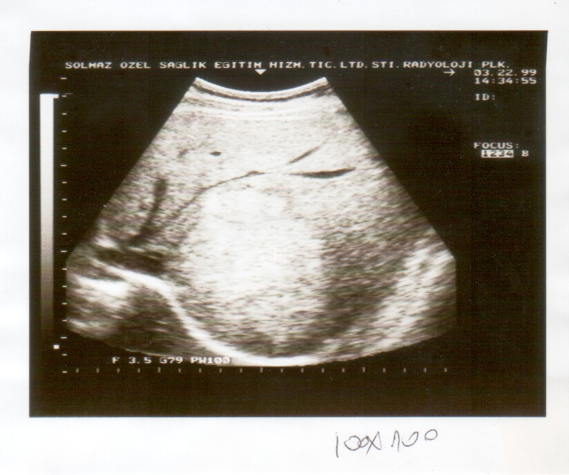 Ultrasound scan. Provided as-is. Please feel free to categorise, add description, crop or rename.